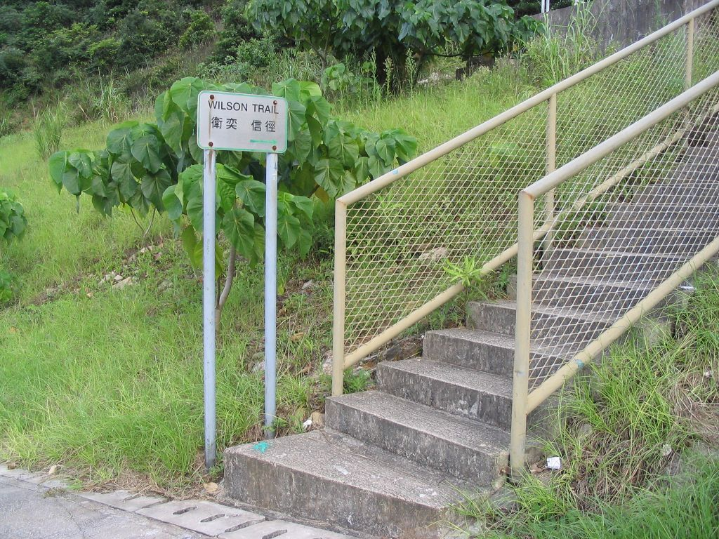 衛奕信徑-第三段 (照鏡環山近澳景路) Wilson Trail stage 3 (near O King Road)